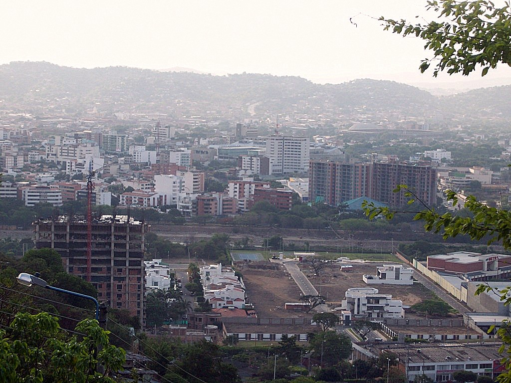 Panoramica de la Ciudad de Cucuta